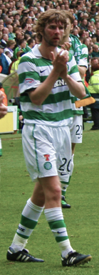 Paddy McCourt walking around Celtic Park at the end of the 2010-11 season